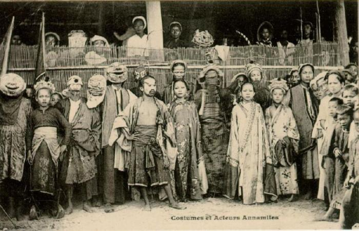 Vietnamese Acteurs